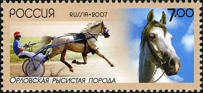 Stamp of Russia, 2007. Native horse breeds: Orlov trotter